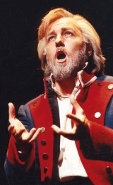 John Owen-Jones (born 1971), a Welsh musical theatre actor and singer as Jean Valjean in Alain Boublil and Claude-Michel Schönberg's musical Les Misérables. Extracted from the album cover artwork of Adre'n ôl.